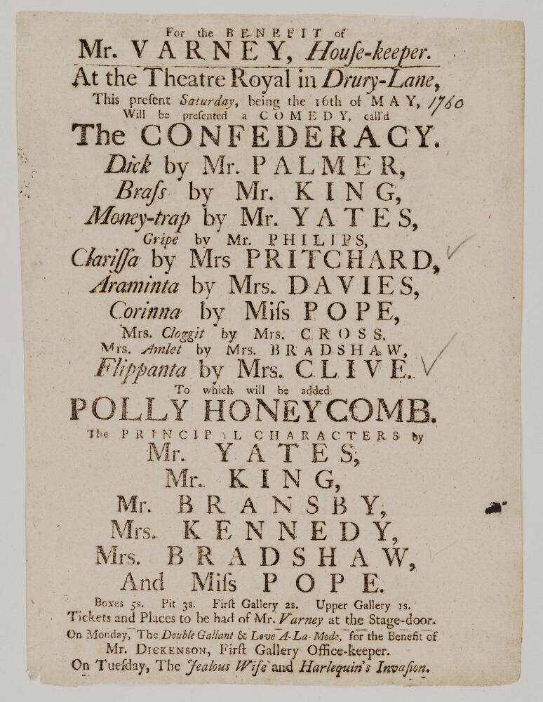 Playbill of Drury Lane Theatre, Saturday, being the 16th of May [1760], announcing The confederacy &c. for the benefit of Mr. Varney; 1760. Has ticks in pencil against Mrs. Pritchard, Mrs. Clive and Mrs. Bradshaw; Confederacy; Polly Honeycomb; Double gallant; Love a-la-mode; Jealous wife; Harlequin's invasion; [Playbill of Drury Lane Theatre, Saturday, being the 16th of May [1760], announcing The confederacy &c.]